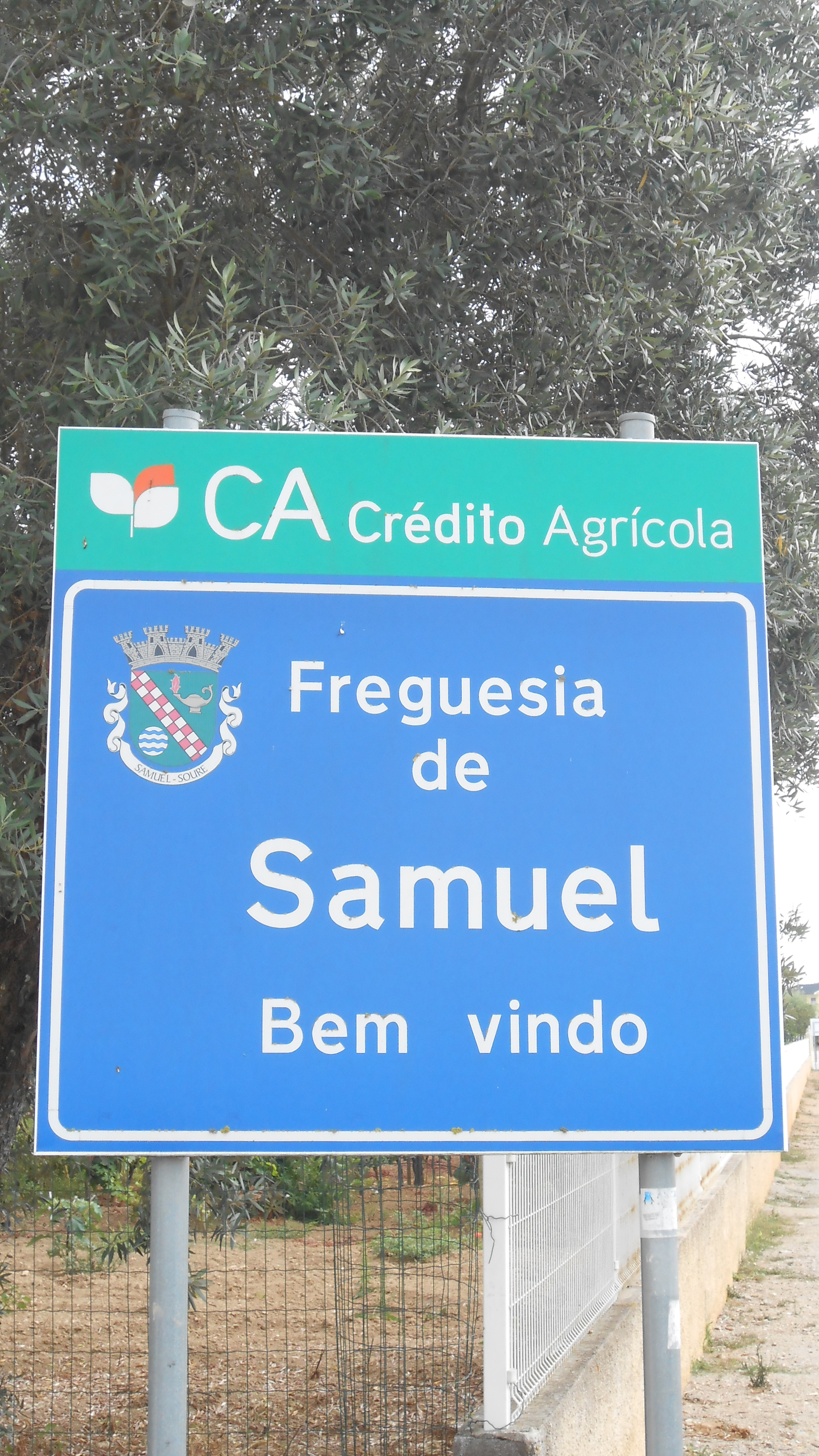 Entry sign of the parish (freguesia) Samuel, municipality (concelho) of Soure, Portugal (entering from direction Abrunheira)